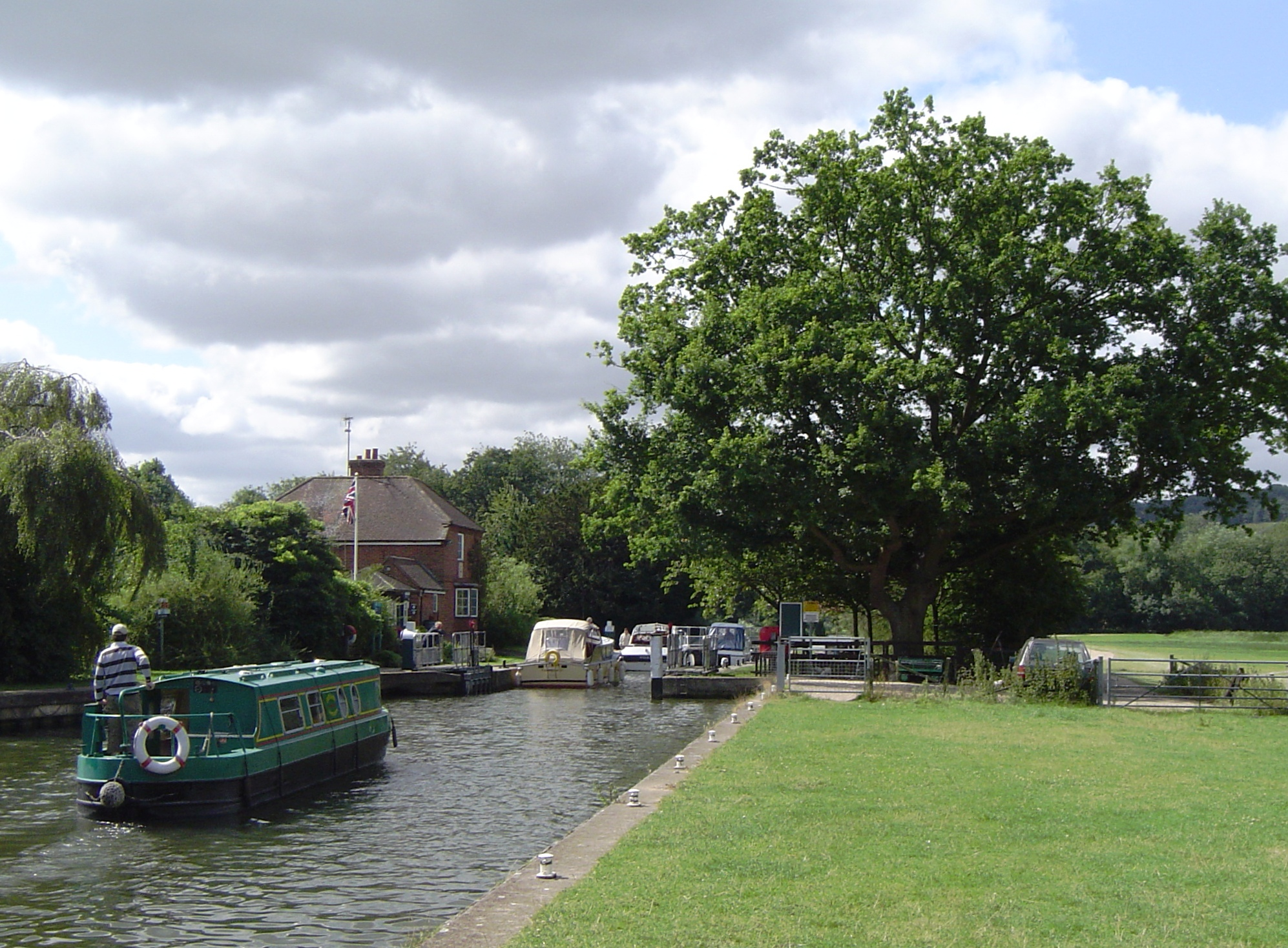 Cleeve Lock River Thames near Goring looking downstream